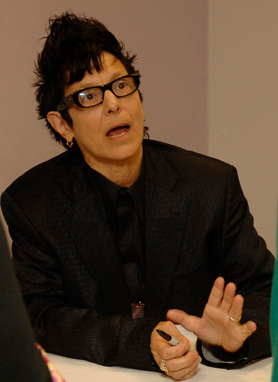 Elizabeth Streb signed copies of her book “How to be a Real Live Action Hero” at a book signing held in the Shults Center Reading Lounge, July 13, 2010. STREB Extreme Action Company